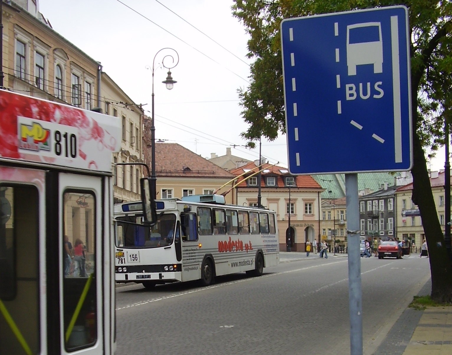 Lublin. Trolleybus Jelcz PR110T.